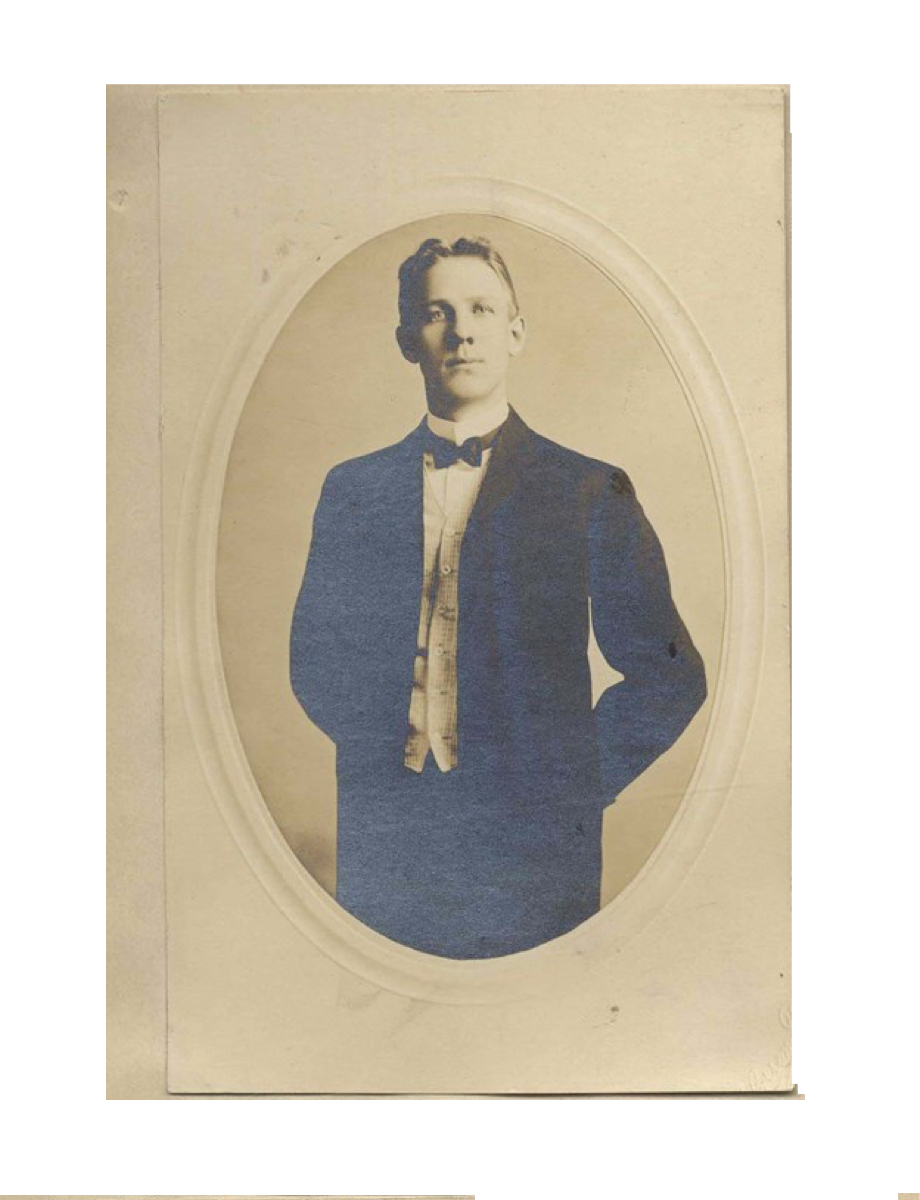 The Swede Albert Dahlström. Picture from the Police archive.